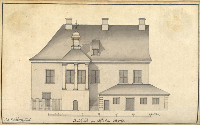 Drawing by J.J. Reichborn of the town hall of Bergen.